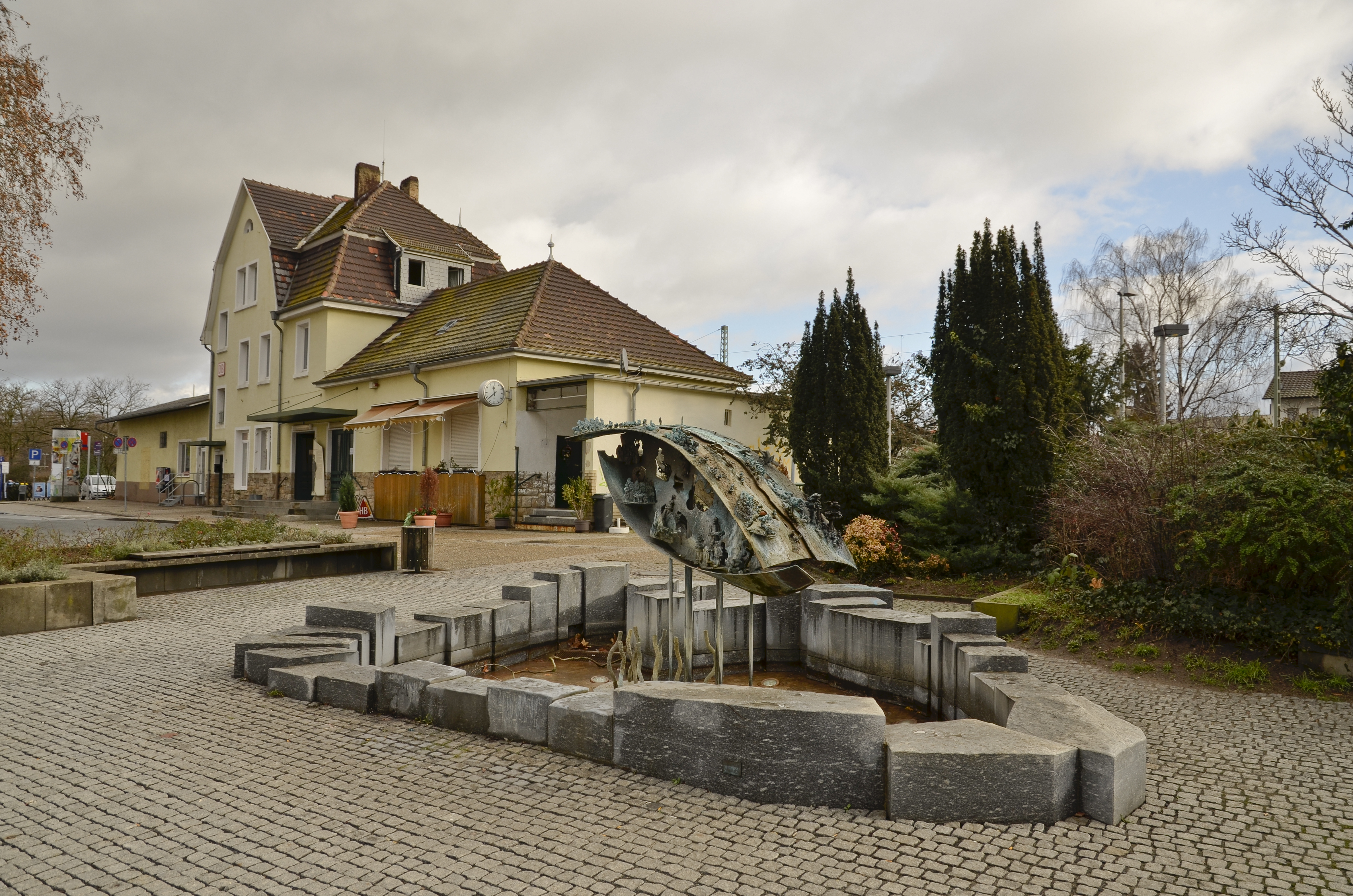 Railway station Walldorf, Mörfelden-Walldorf, Hesse, Germany.